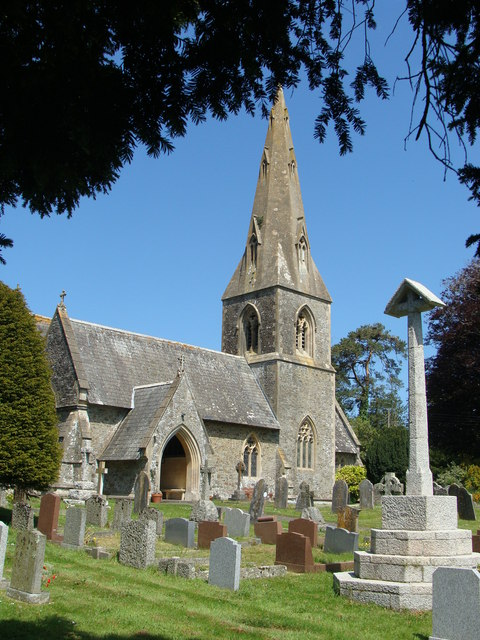 St Matthew'schurch and churchyard, near to Landscove, Devon, Great Britain.